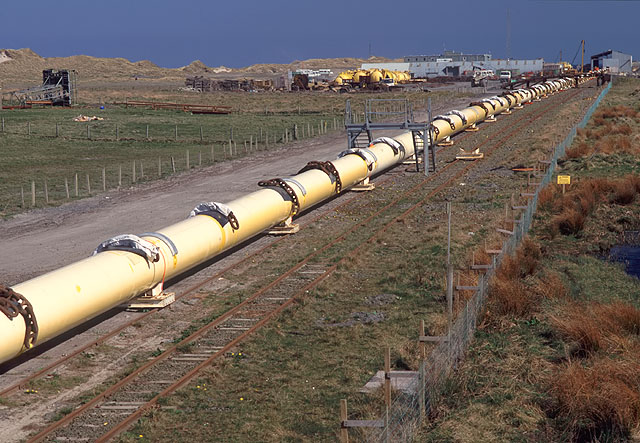 Subsea7 Pipeline Bundle Fabrication Site Pipeline Bundle under construction, at the Subsea7 Wester Site, with ballast chains attached, as seen from the A9.